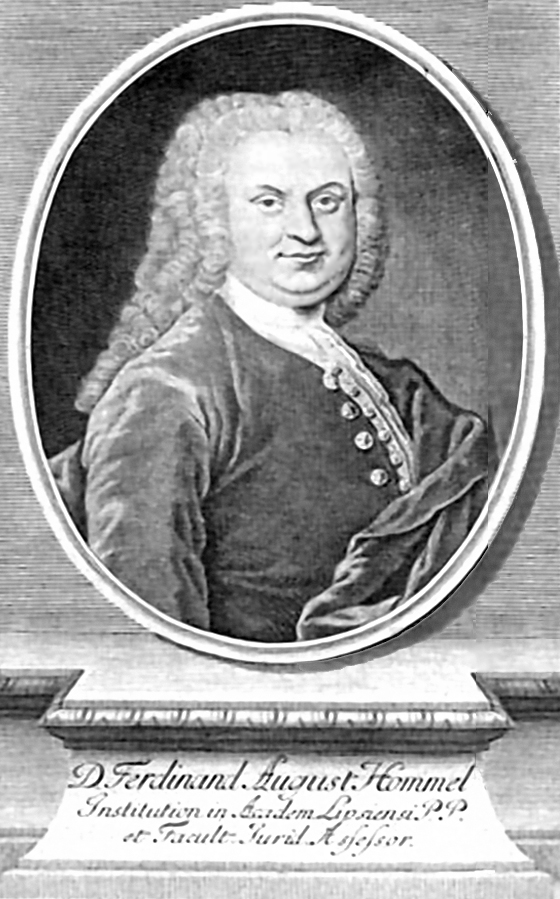 Ferdinand August Hommel (1697-1765) Jurist from Germany